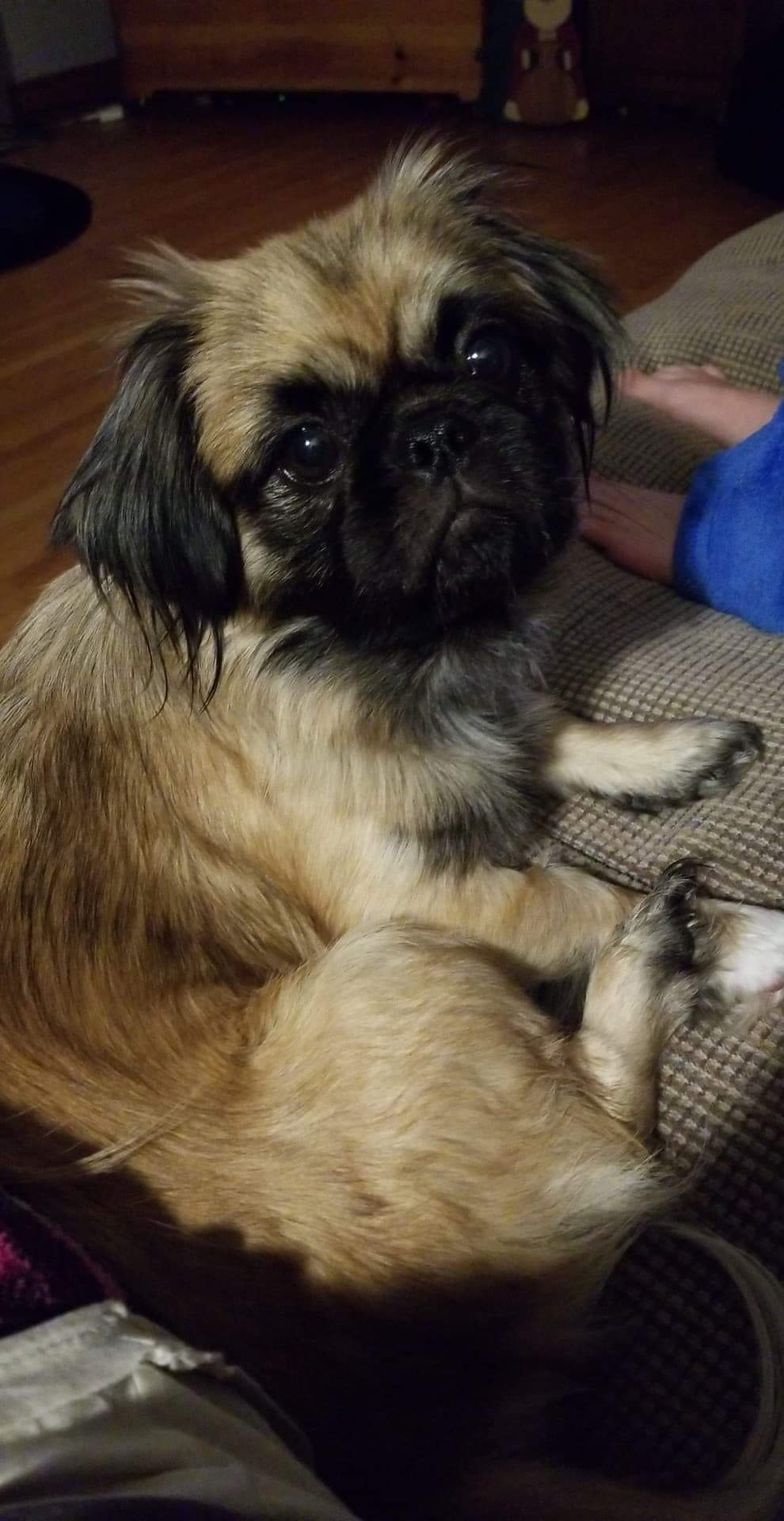 Not sure of exact birthdate, but slightly over 1 in picture.